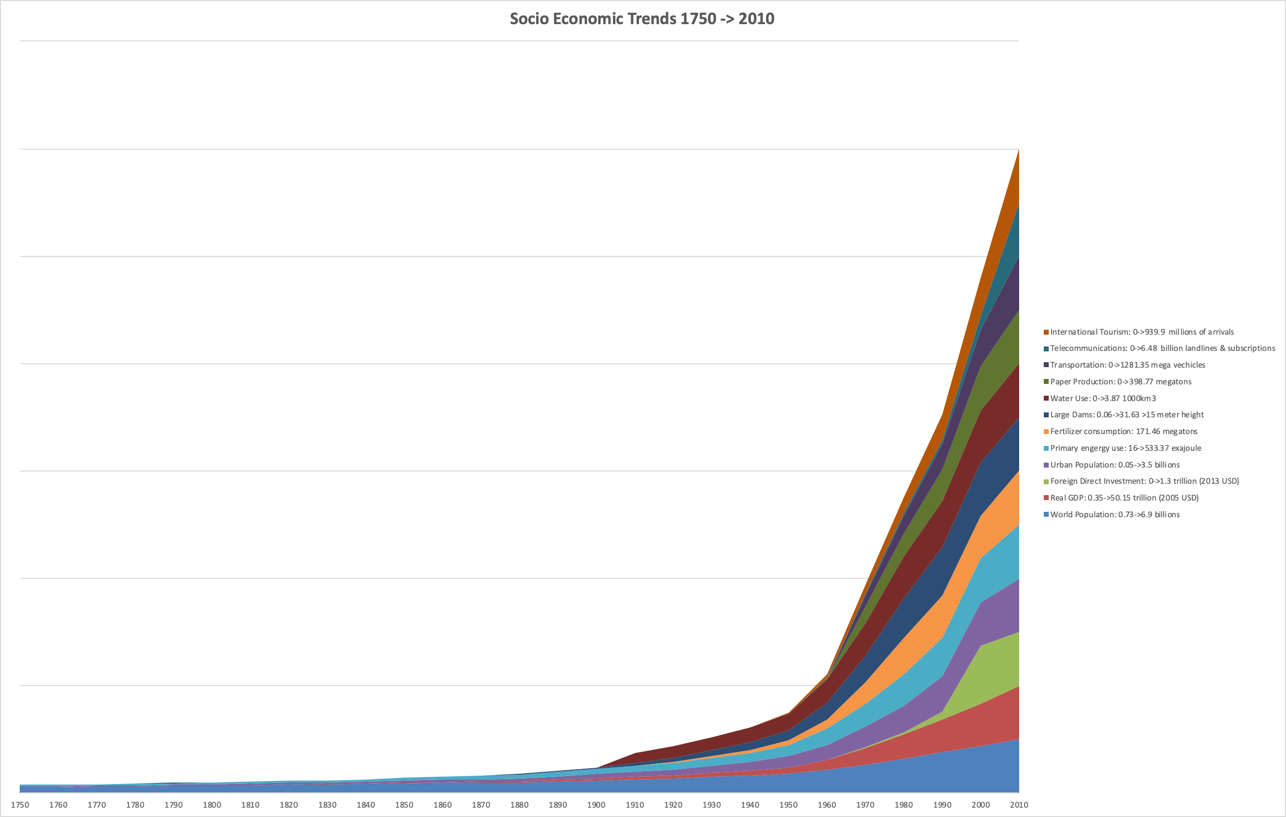 Socioeconomic Trends of the Great Acceleration of the Anthropocene from 1750 to 2010. The data graphically displayed is scaled for each datum's 2010 value. Source data is from the International Geosphere-Biosphere Programme